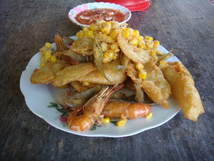 Myanmar fried snack is assorted deep fried vegetables such as potato and onion, fruit such as banana and others such as prawn.မြန်မာဘာသာ: အကြော်စုံ